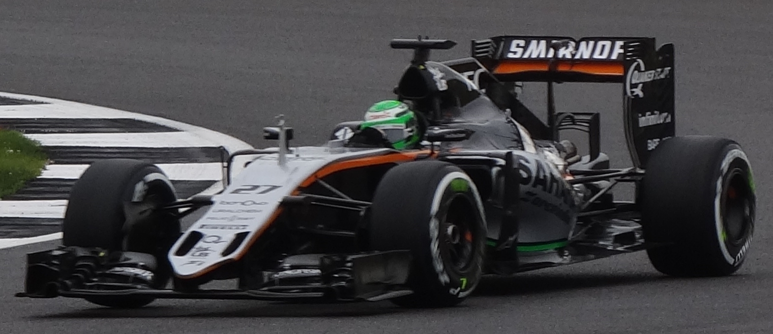 Nico Hülkenberg in the Force India VJM09, 2016 British Grand Prix